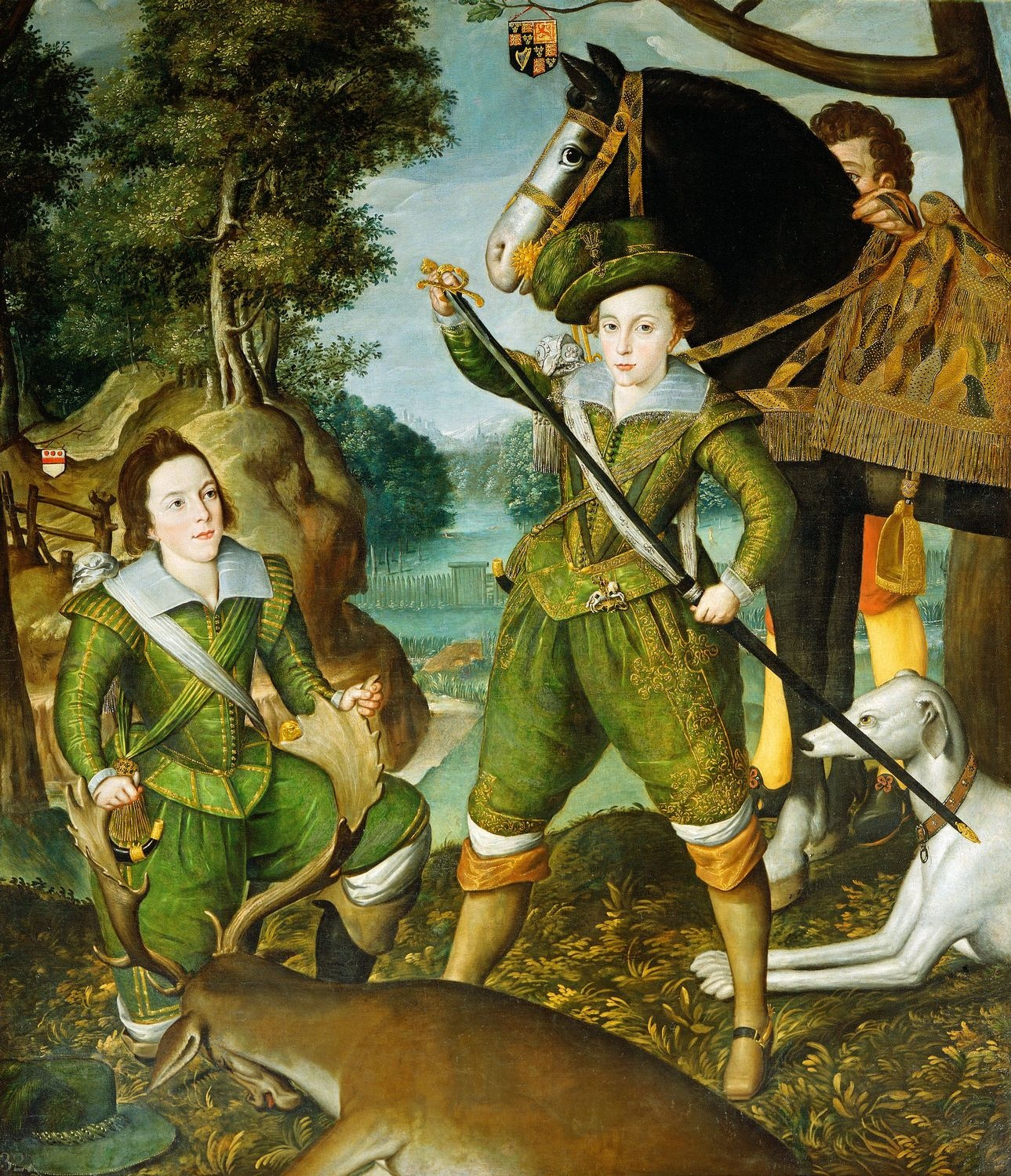 Henry, Prince of Wales with Robert Devereux, 3rd Earl of Essex in the Hunting Field